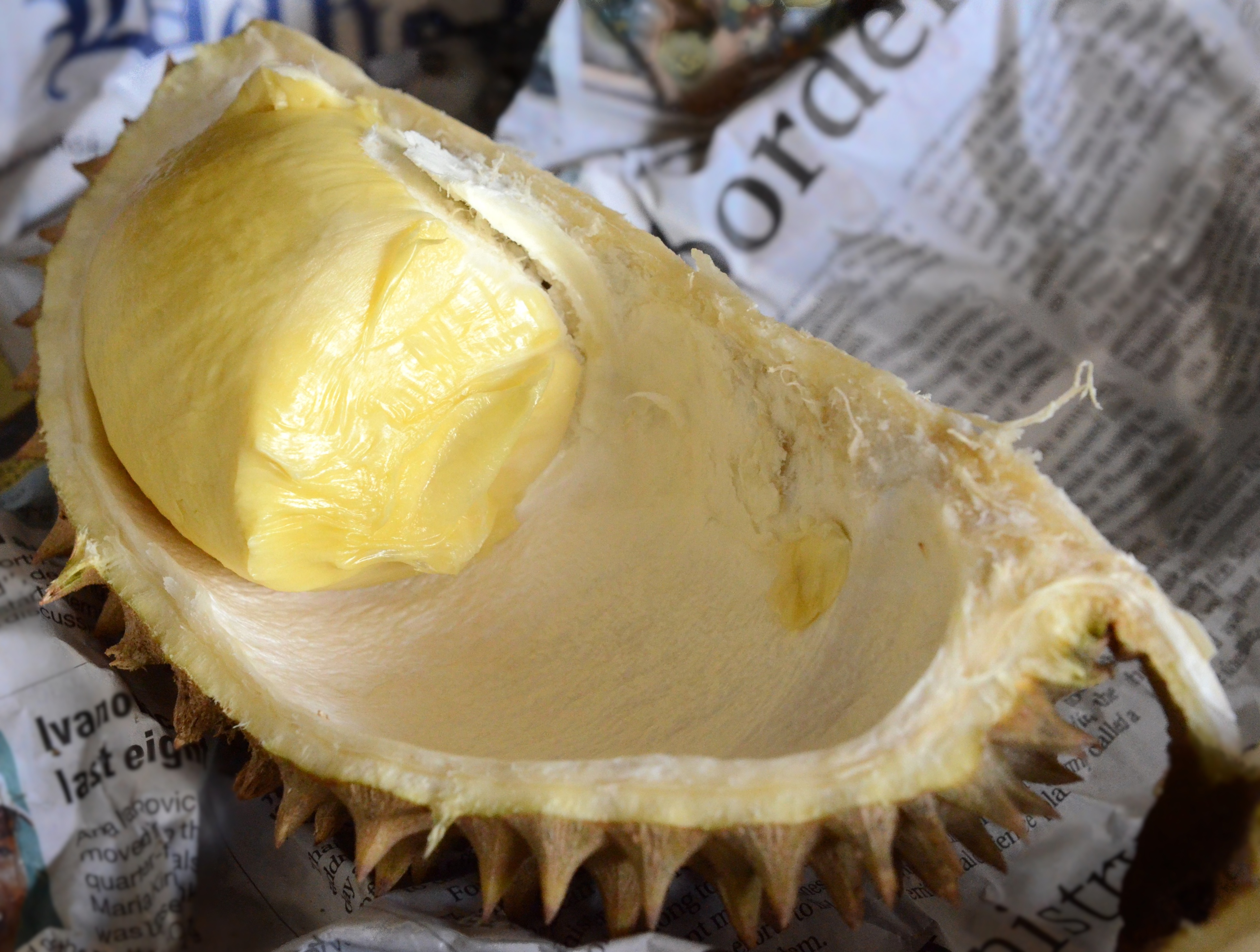 Thurian long Laplae (Thai script: ทุเรียนหลงลับแล) is a durian cultivar from Laplae district, Uttaradit Province, Thailand. It is quite famous in Thailand under durian aficionados for its sweetness with strong vanilla and caramel flavours, and without too much of the usual odour of a durian. The name long Laplae means "lost in (=in love with) Laplae". A durian festival is also held each year, early June, in Laplae district.